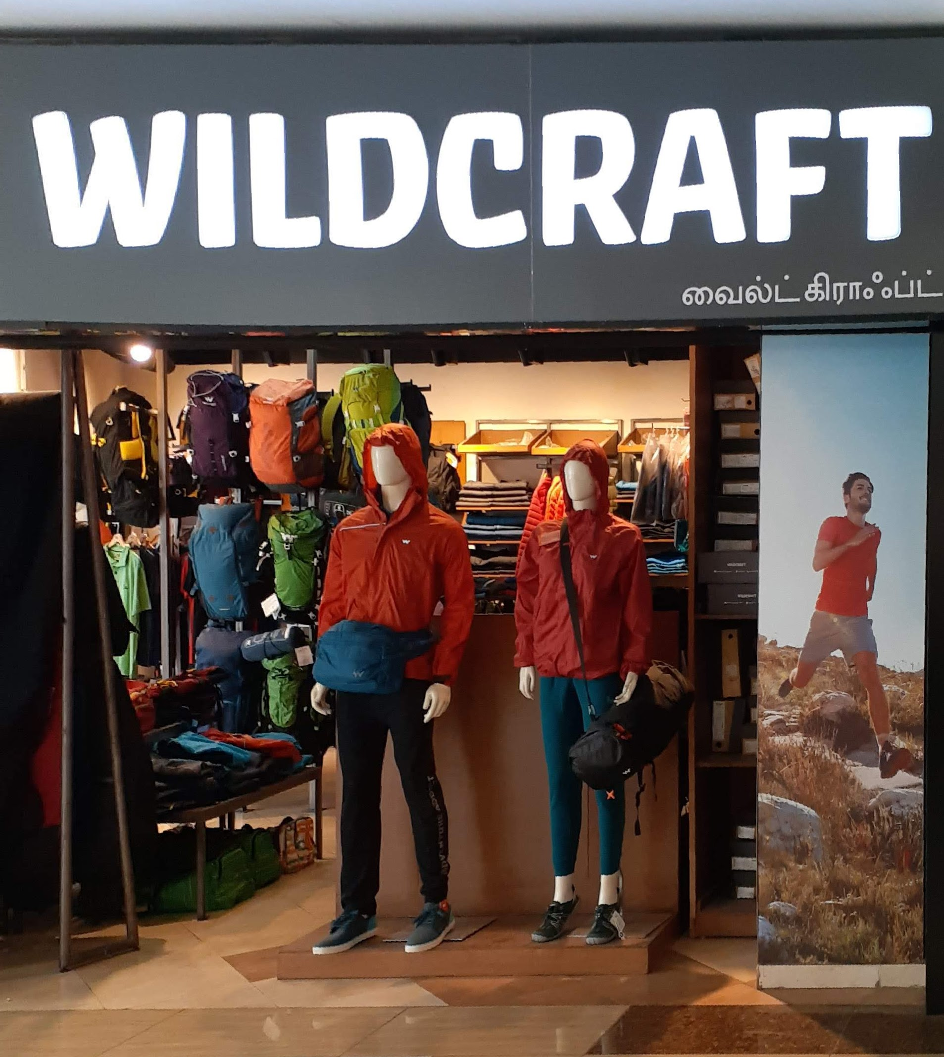 Wildcraft Retail stores, Chennai, Tamil Nadu, India.